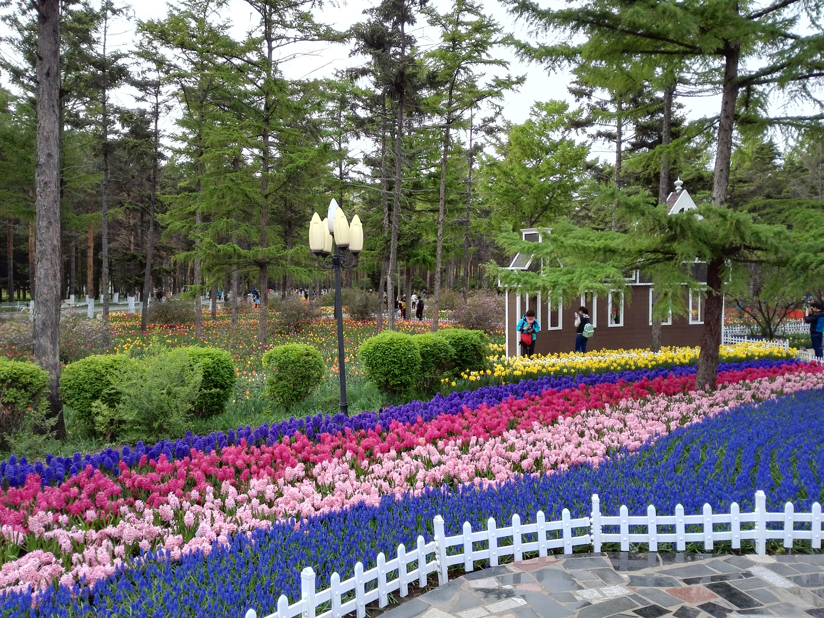 Heilongjiang Forest Botanical Garden(also Harbin National Forest Park), located in Harbin's Haping Road.